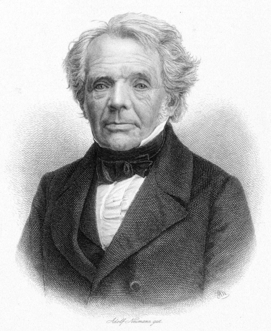 Depicted person: August Ferdinand Möbius